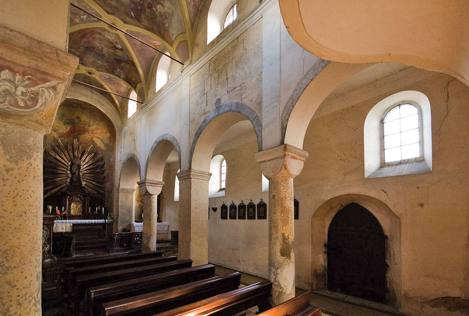 Inerior of Romanesque Basilica of the Assumption in Tismice.